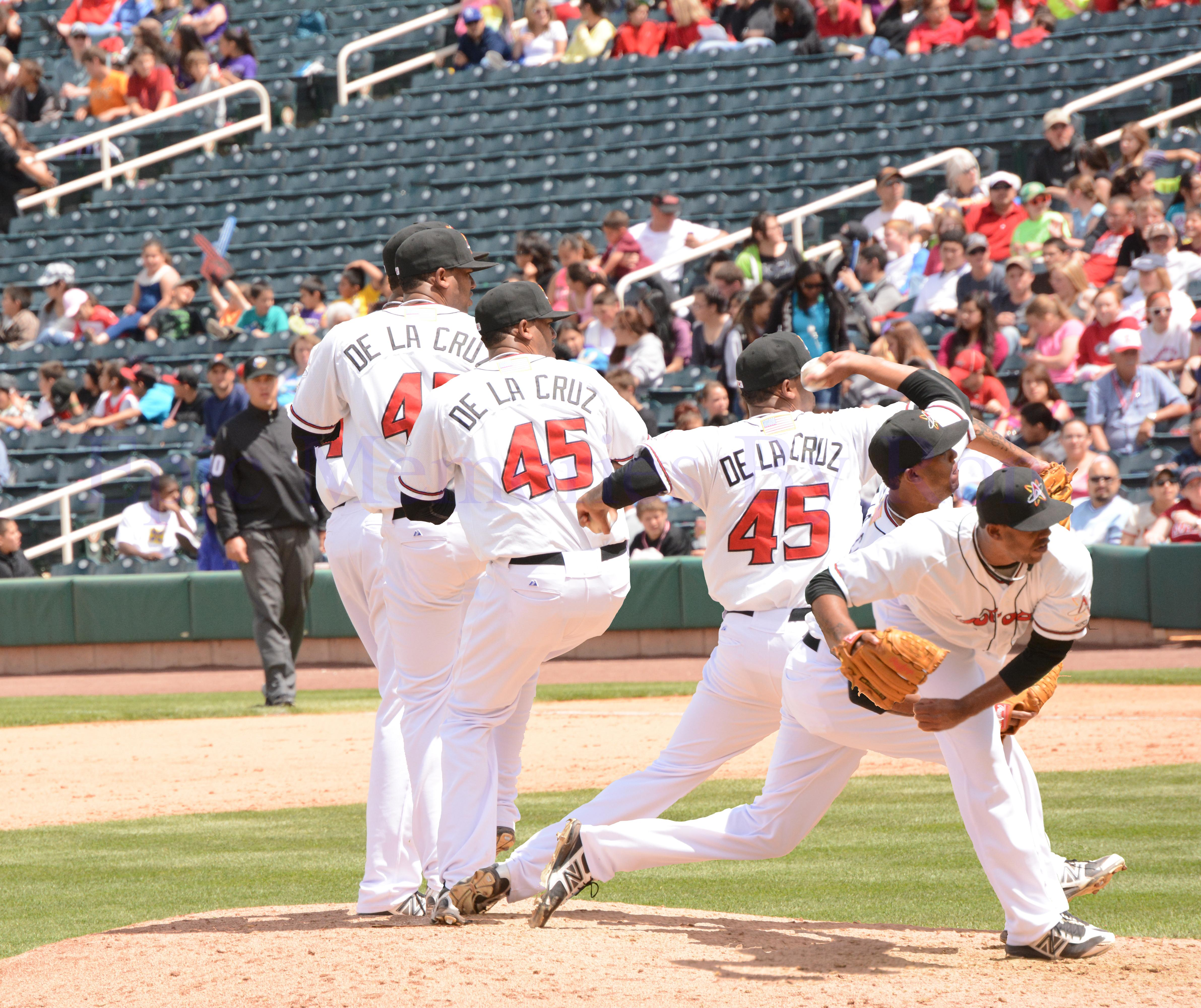 De La Cruz with the Albuquerque Isotopes